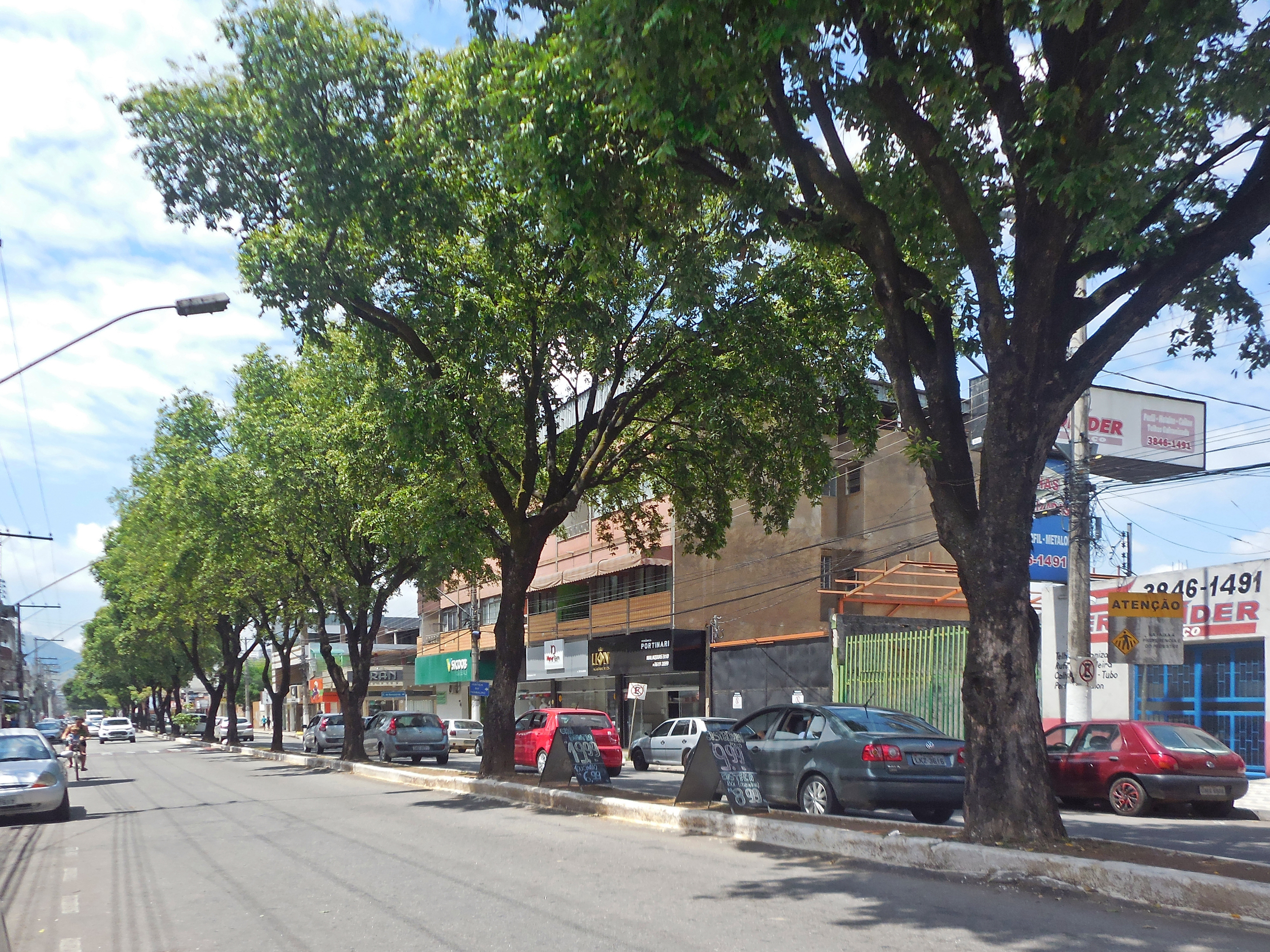 Oitis (Licania tomentosa) in the Governador José Magalhães Pinto Avenue, in Coronel Fabriciano, Minas Gerais, Brazil.